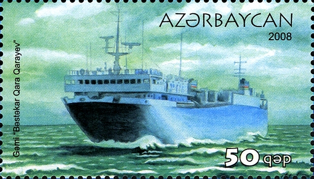 150th Anniversary of the Caspian Shipping Company - "Composer G.Garayev"